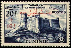 Tabarka fort - Tunisian stamp - 1957 (Semi-Postal)